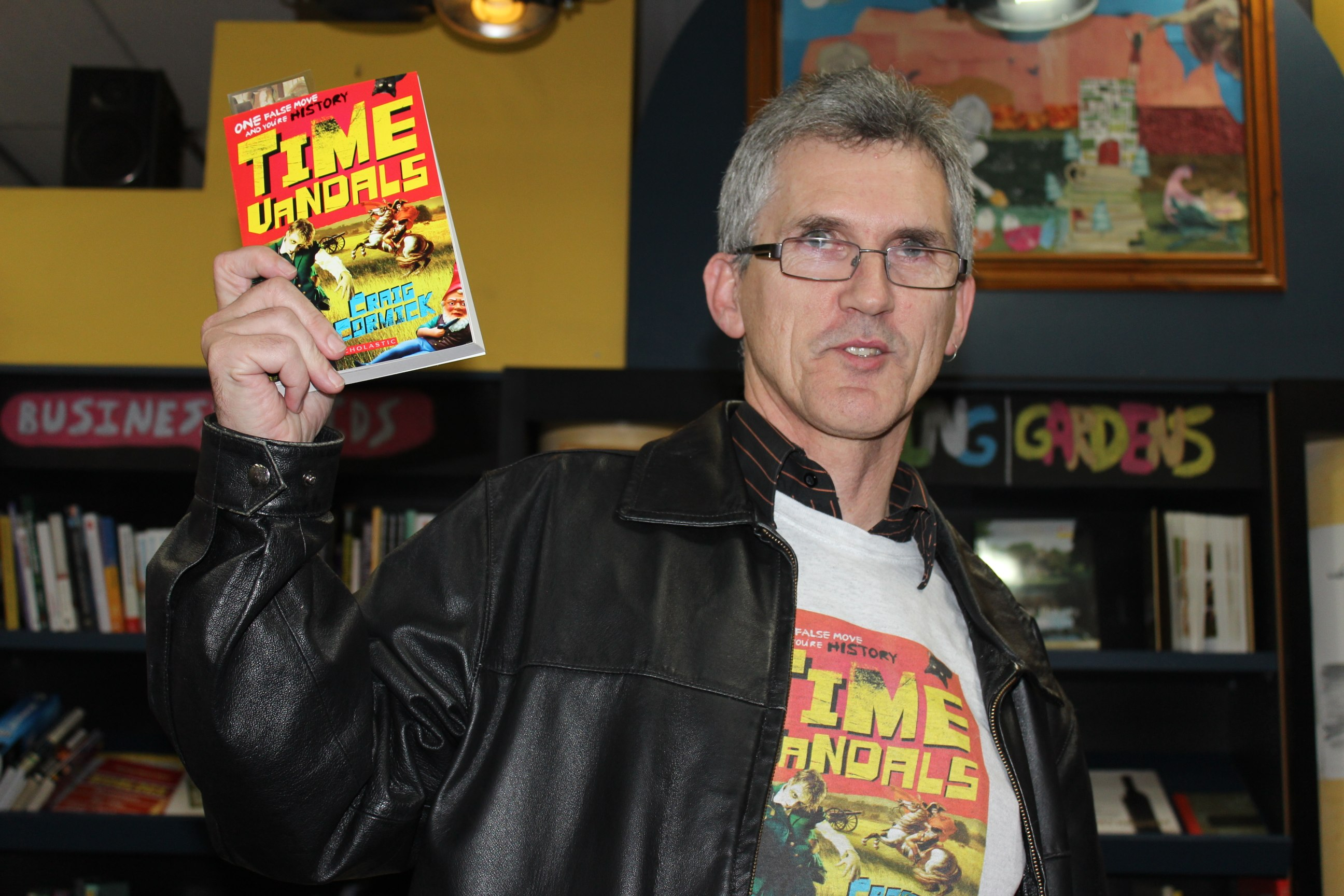 Australian science and science fiction author Craig Cormick holding his young adult book Time Vandals, at Conflux 2012, the Canberra science fiction conference. Photograph by Catriona Sparks.